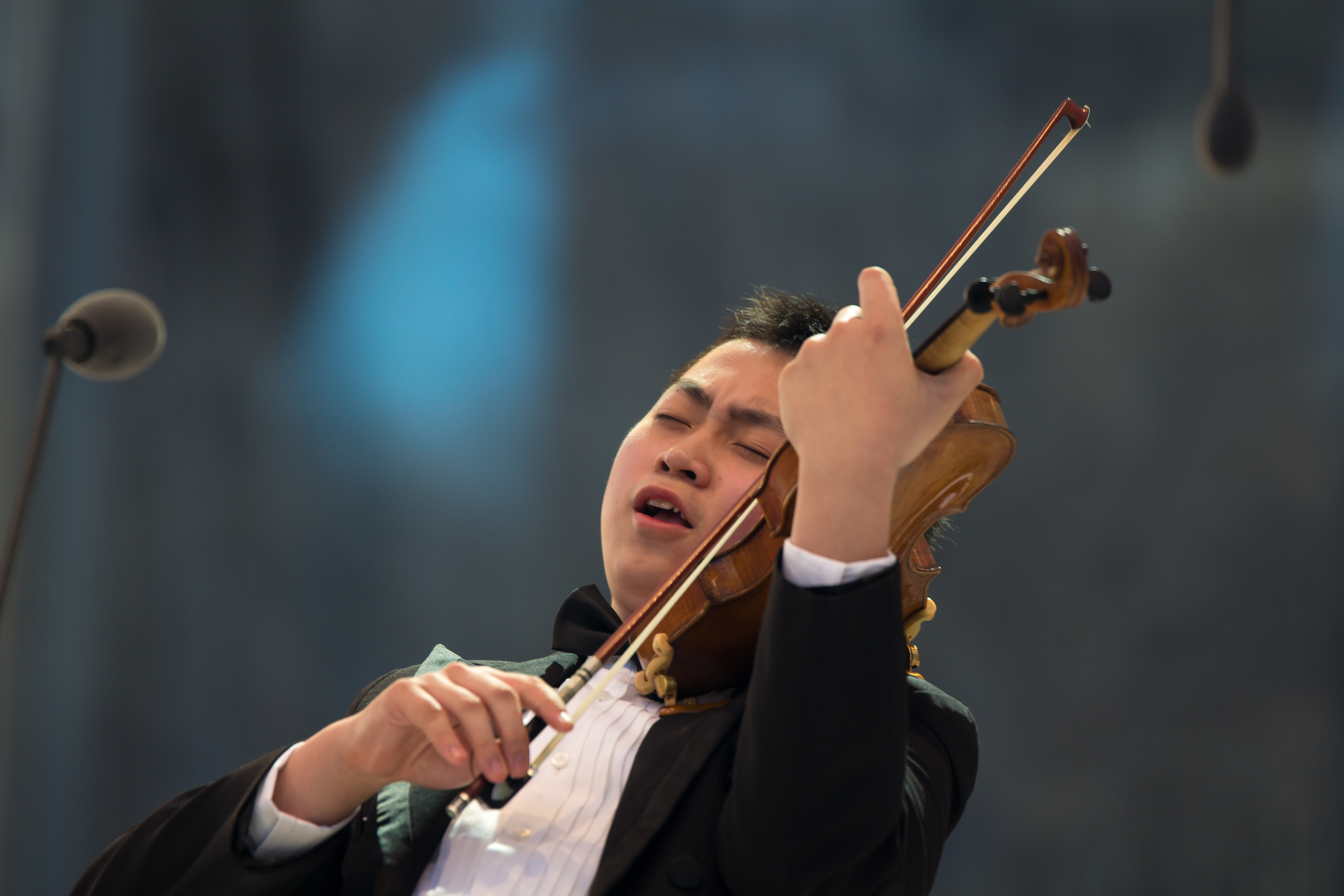 Ziyu He at final rehearsal for Eurovision Young Musicians 2014